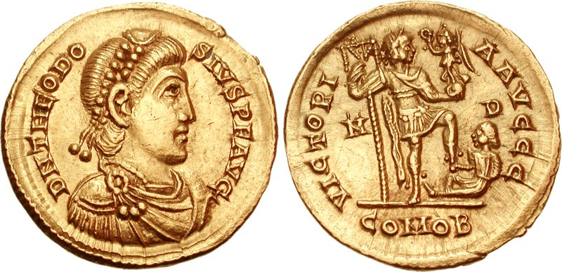 Theodosius I. AD 379-395. AV Solidus (4.41 g, 6h). Mediolanum mint (Milan). Struck AD 395. D N THEODO SIVS S P F AVG, pearl-diademed, draped, and cuirassed bust right VICTORI A AVCCC, Theodosius standing facing, head right, left foot on bound captive, holding labarum in right hand and Victory, standing left on globe, in outstretched left; in field M-D; in exergue COMOB. RIC IX 35a; Depeyrot 16/3 (this coin illustrated). EF, minute traces of encrustation. Rare. From the White Mountain Collection. Ex Leu 28 (5 May 1981), lot 586.